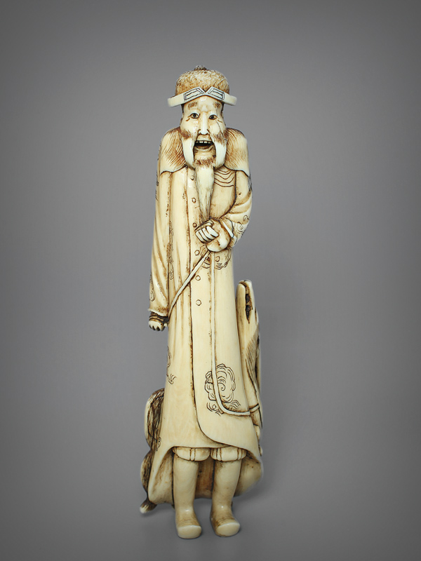 Yomeisai